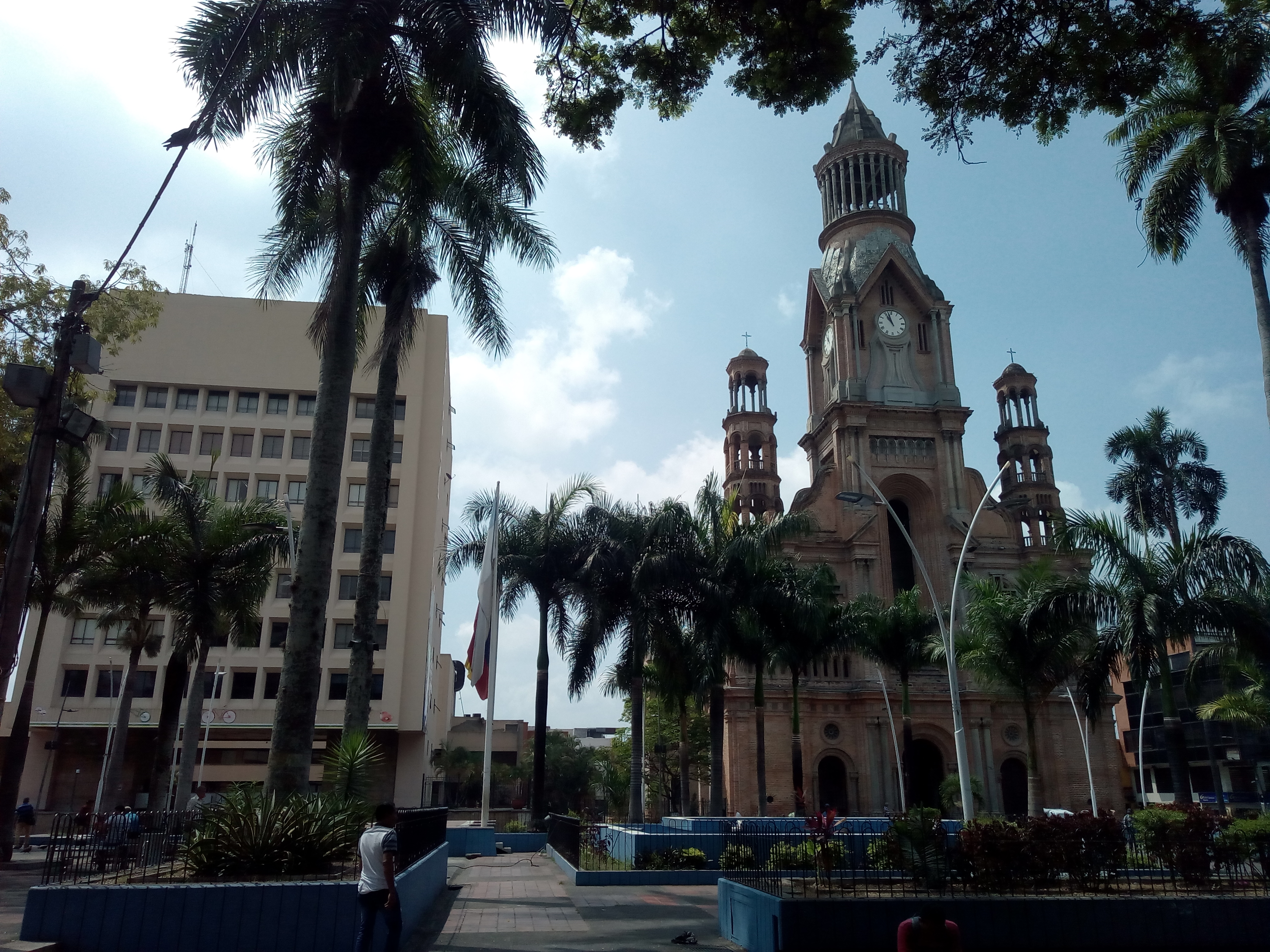 Photo taken from "Parque Bolívar".